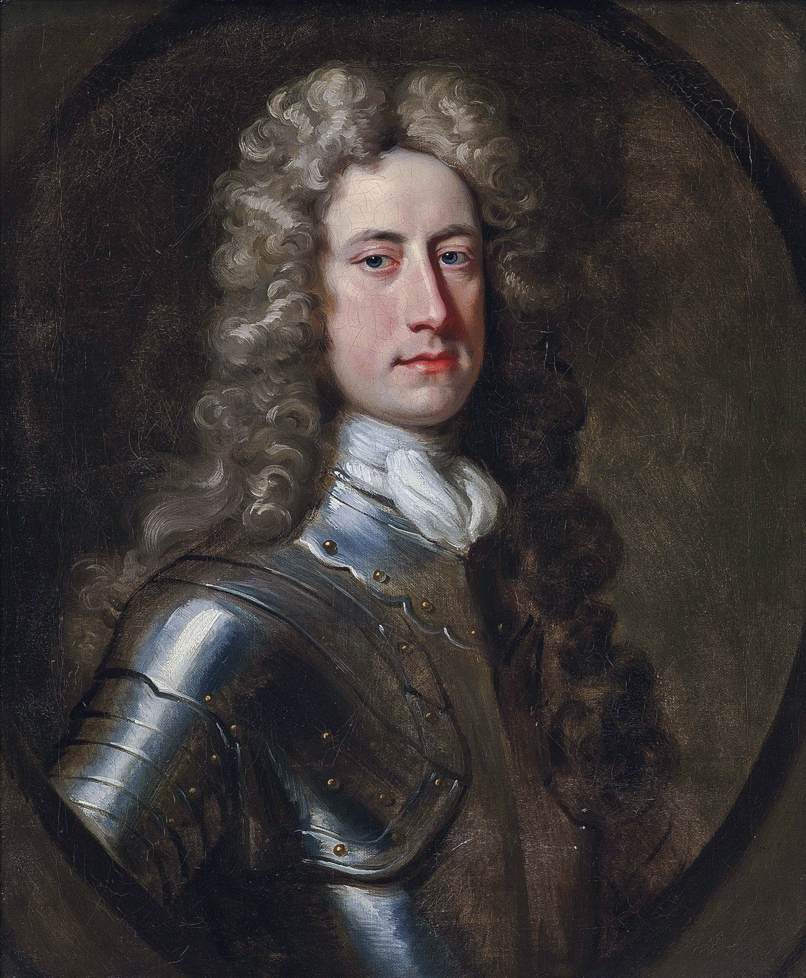 William Stanhope, 1st Earl of Harrington (1683?-1756) oil on canvas 73.6 x 60.3 cm